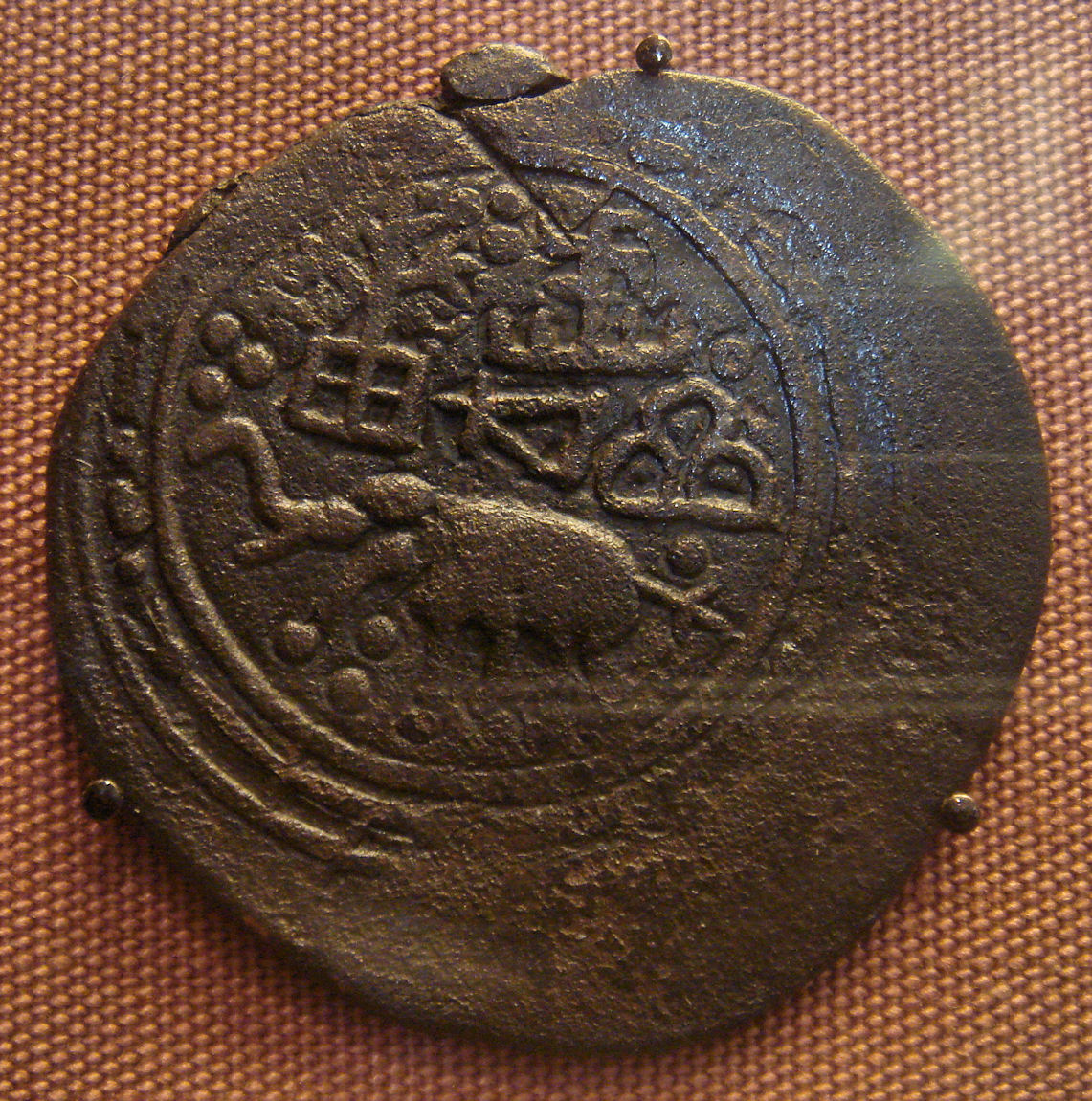 Sri Lanka Coin 1st Century AD